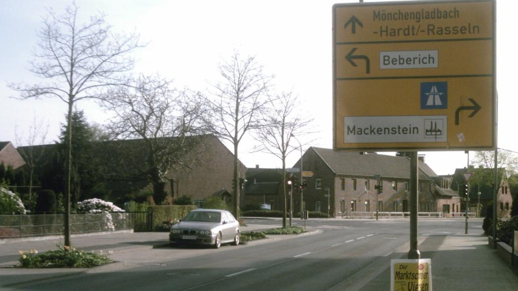 Street crossing in Bockert, Viersen, Germany